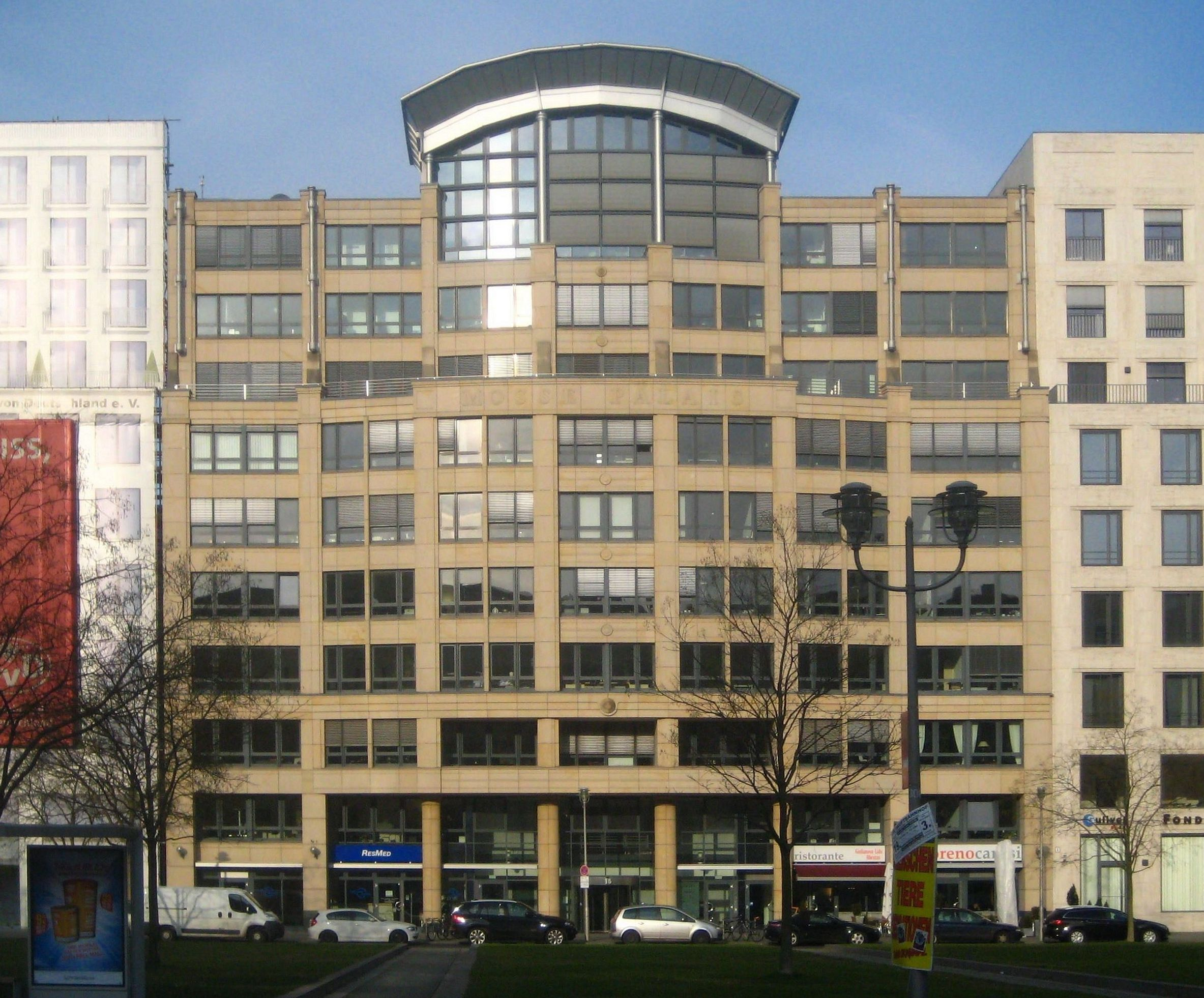 The new Mosse-Palais at Leipziger Platz No. 15 in Berlin-Mitte. The office and residential building was constructed 1996-1998 to a design by the architects Dieter Strauch, Schneider & Partner. It was the first new building on the reconstructed Leipziger Platz.